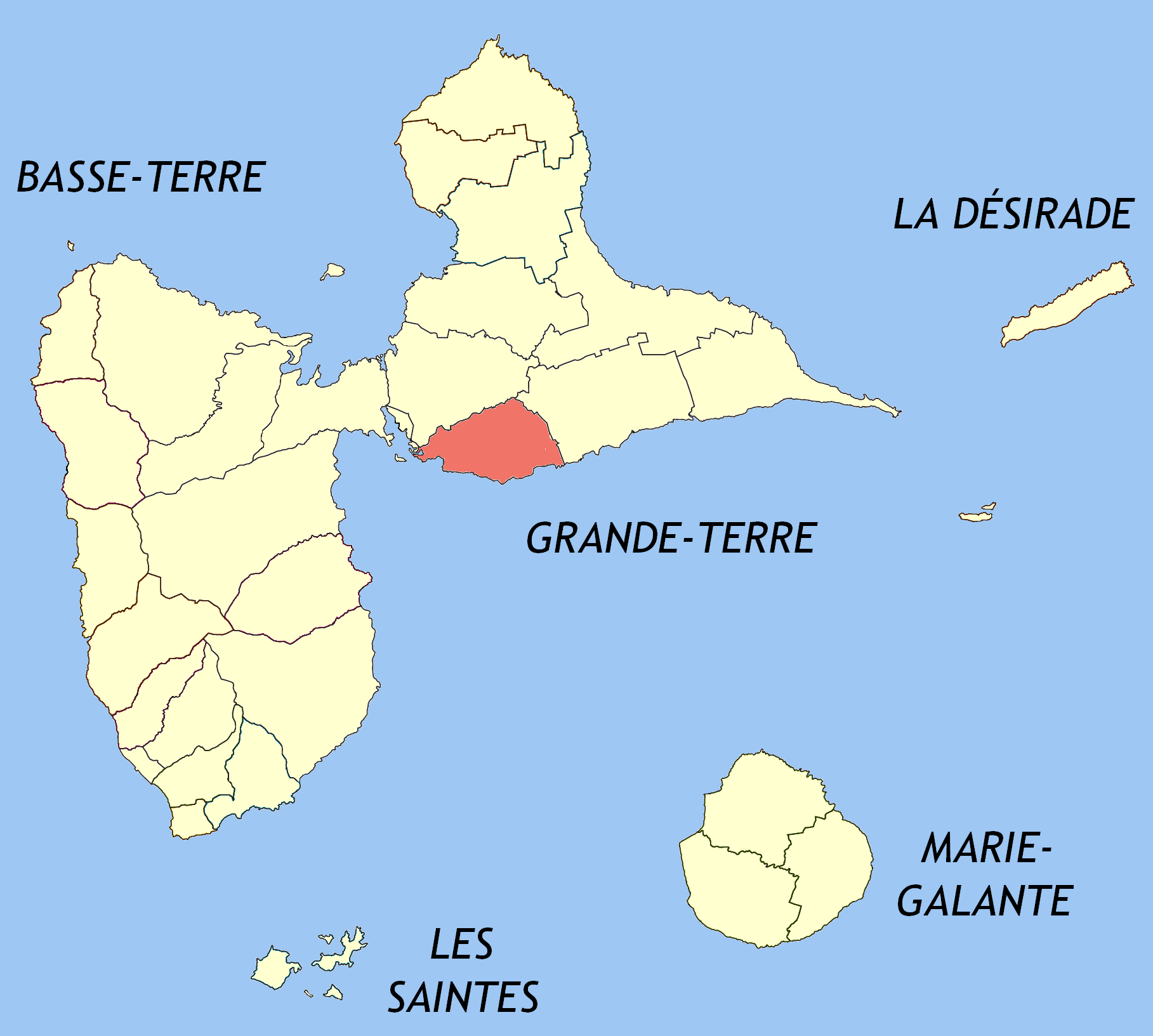 Created map myself